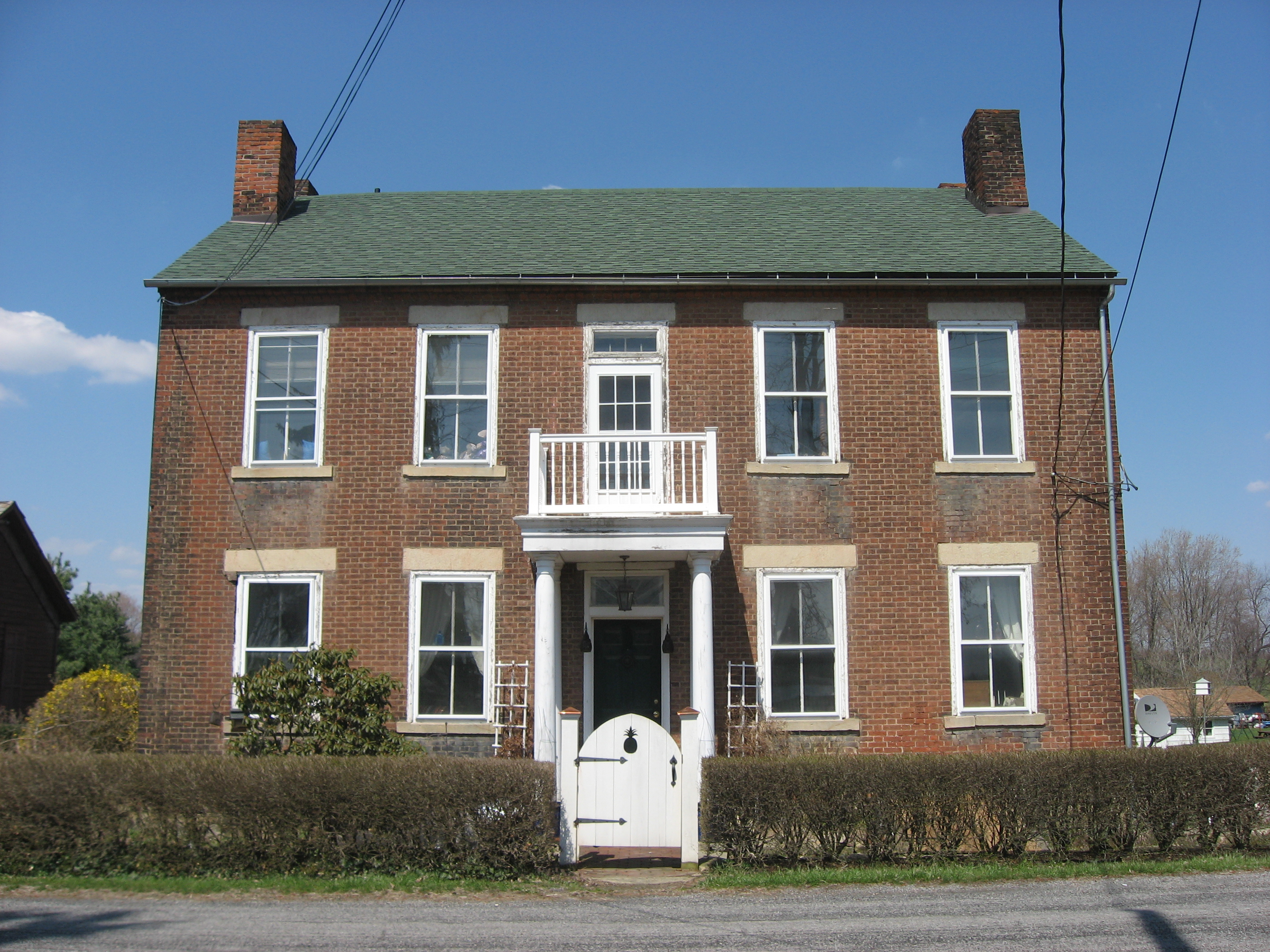 Front of the Nicholas Eckis House, located along High Street in East Fairfield (Fairfield Township), Columbiana County, Ohio, United States. Built in 1833, the house is listed on the National Register of Historic Places.